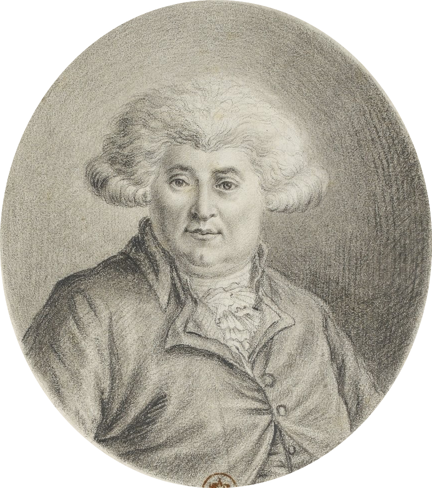 Portrait of André Boniface Louis Riqueti de Mirabeau (1754-1792), aka "Mirabeau-Tonneau".